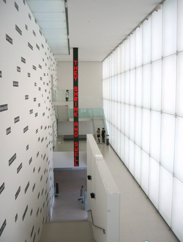 Toyota Munichipal Museum of Art